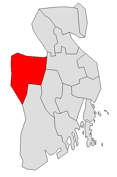 Map of Lardal, Vestfold in Norway